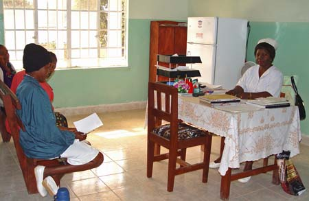 Nurse at Koidu Hospital Sierra Leone consulting with patients when the hospital had been rebuilt after the Sierra Leone Civil War